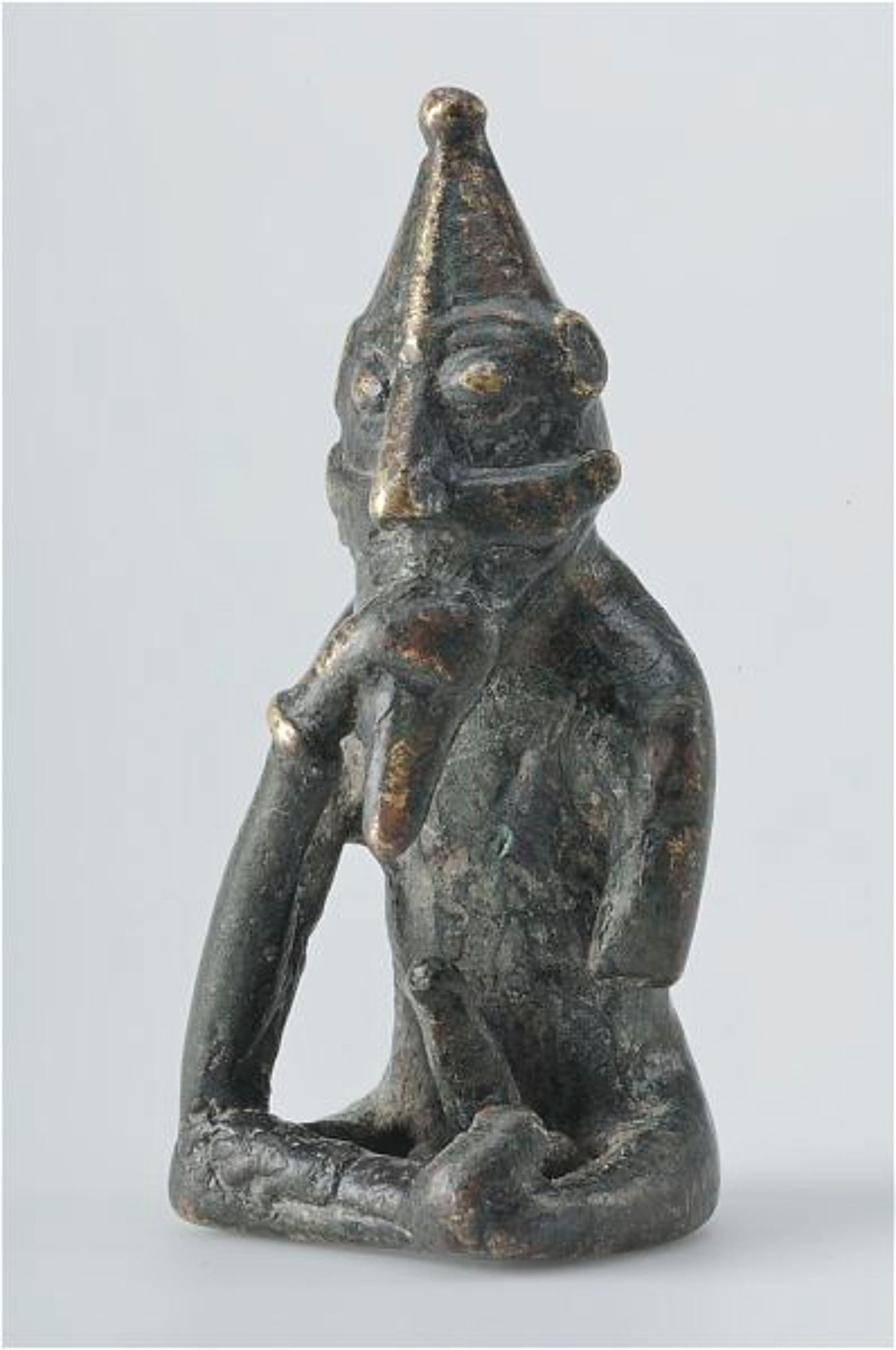 Frey statuett found in Rällinge